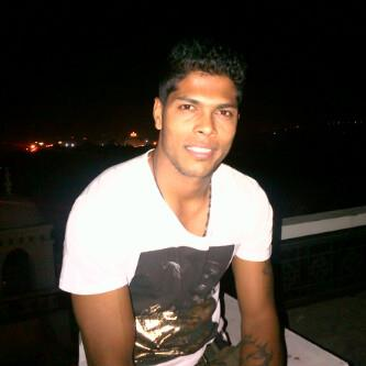 Indian cricketer Umesh Yadav